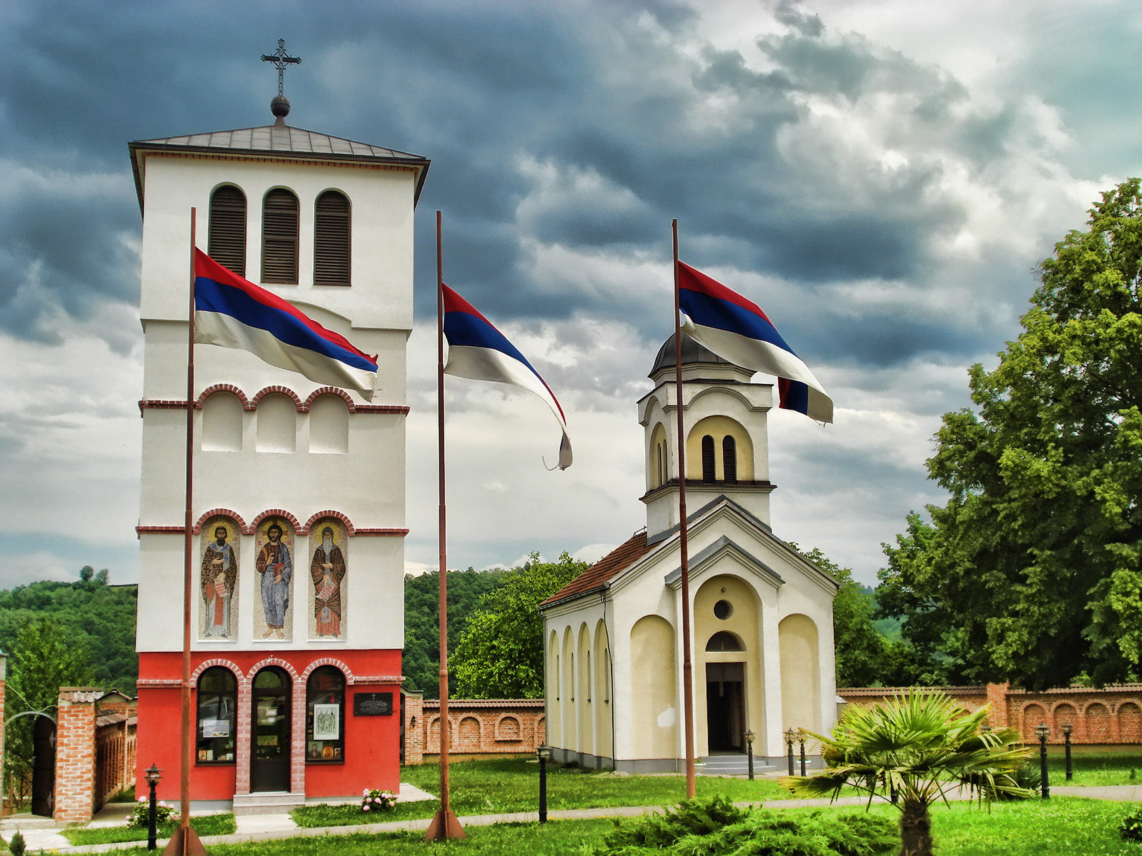 Klisina Monastery is situated in the village of Nistavci on the Prijedor-Sanski Most Road near Prijedor in Bosnia. The monastery is built in a medieval monastic enclosure, but the original monastery was destroyed during the Turkish occupation, some time after 1463.